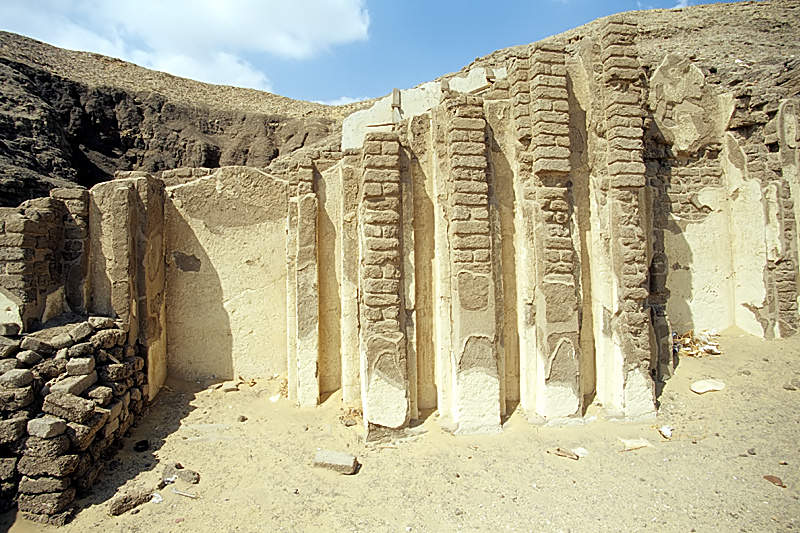 Palace façade of the Mastaba 16 of Rahotep and Nofret, Meidum, Egypt